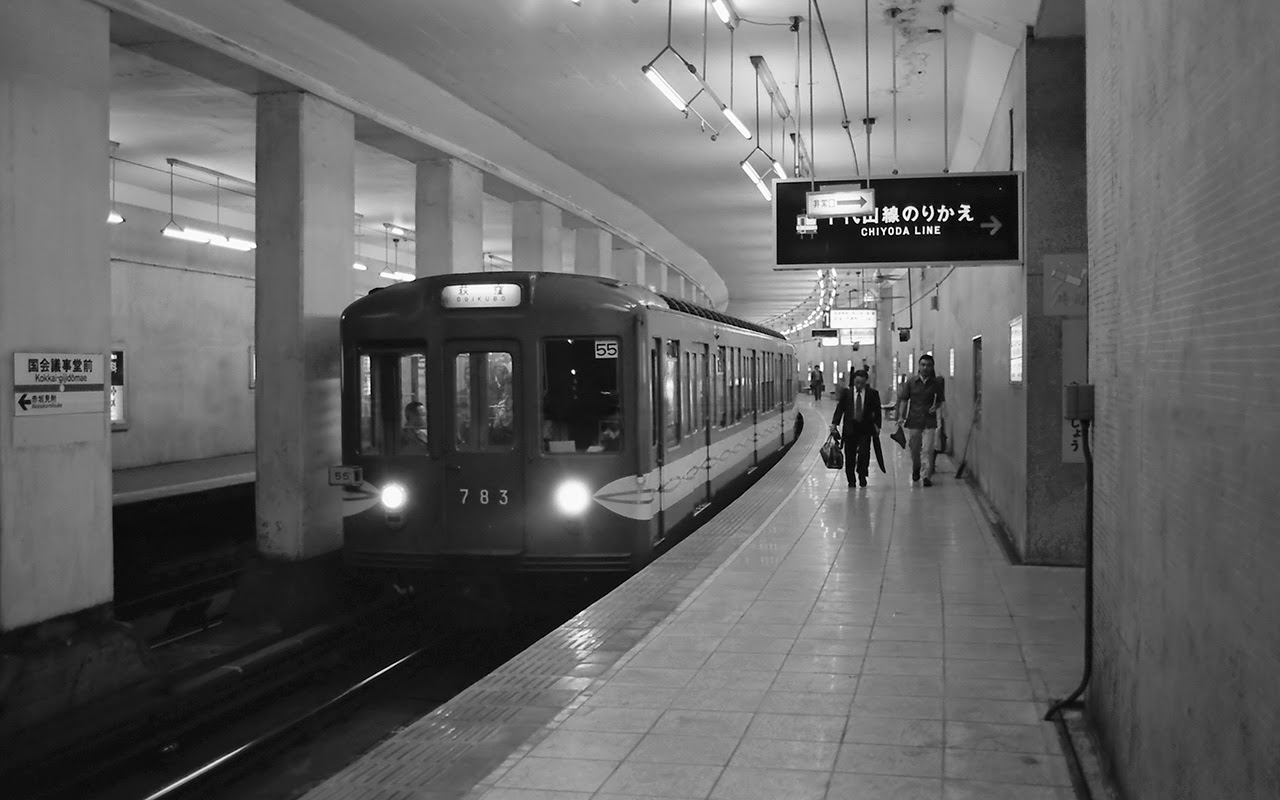 A TRTA Marunouchi Line 500 series EMU at Kokkai-gijido-mae Station